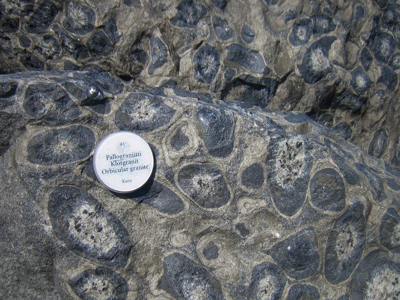 Orbicular granite from Kuru (Pirkanmaa, Finland). This sample is exposed in front of Heureka popular science center (Vantaa, Finland).